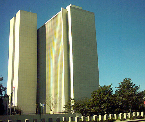 The Wilshire Federal Building — at 11000 Wilshire Boulevard in the unincorporated community of Sawtelle, in the Westside region of Los Angeles County, California. • The huge building is often mistakenly assumed to be in the Westwood district of the City of Los Angeles, but it's located just outside the city boundaries. • The Wilshire Federal Building is the most prominent symbol of federal power in the Los Angeles area, and is thus a popular site for protests against government policies. Credits Taken and uploaded on January 16, 2005 by user Coolcaesar.